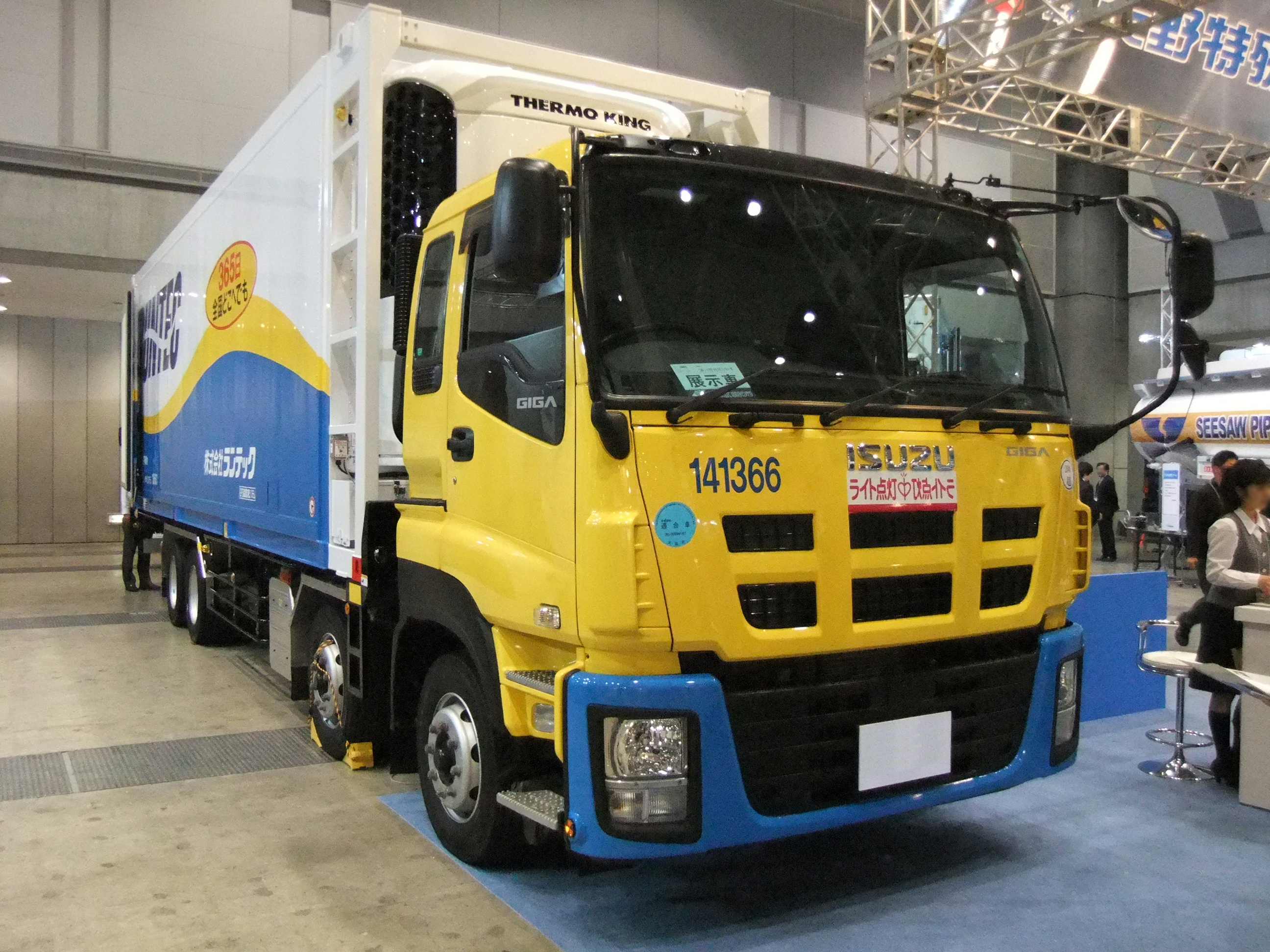 ISUZU, C-Series / GIGA, Full-cab Refrigerated Cargo truck, Model Number LKG-CYL77A, RUNTEC Co., Ltd. （There are a country and a region sold as C-series excluding a Japanese market, too.）